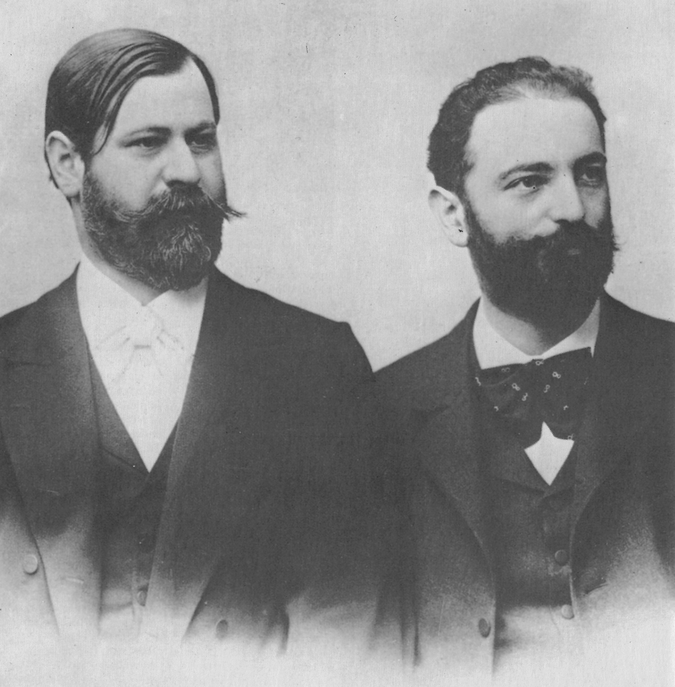 Photograph of the Austrian psychologist Sigmund Freud (1856–1939) and the German biologist and physician Wilhelm Fliess (1858–1928).